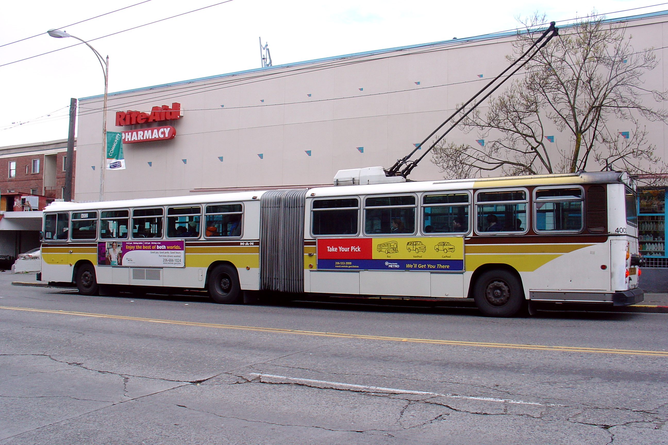 King County Metro trolleybus on route 43 to Downtown Seattle, at Broadway and E Olive Way. In the old Metro paint scheme. The vehicle is an M.A.N. articulated trolleybus and one of 46 built for Metro in 1986-87. Metro retired the last vehicles of this group in 2007.